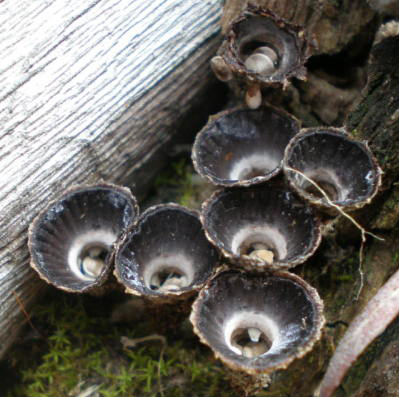 The bird's nest fungus Cyathus helenae H. J. Brodie. "Notes: Growing on debris trapped in driftwood next to Gallatin River." Location: Gallatin Co., Montana, USA.